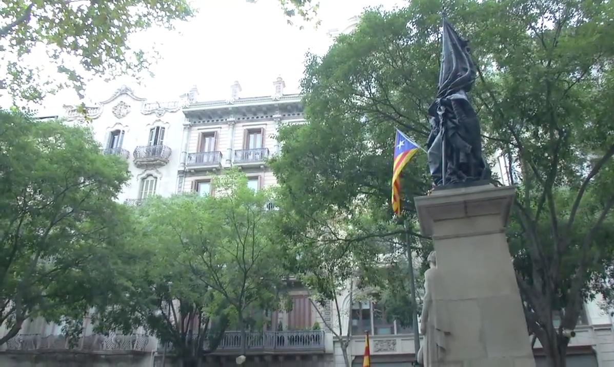 A blue estelada hanging from the Rafael Casanova monument at the official ceremony at the Diada of 2015.